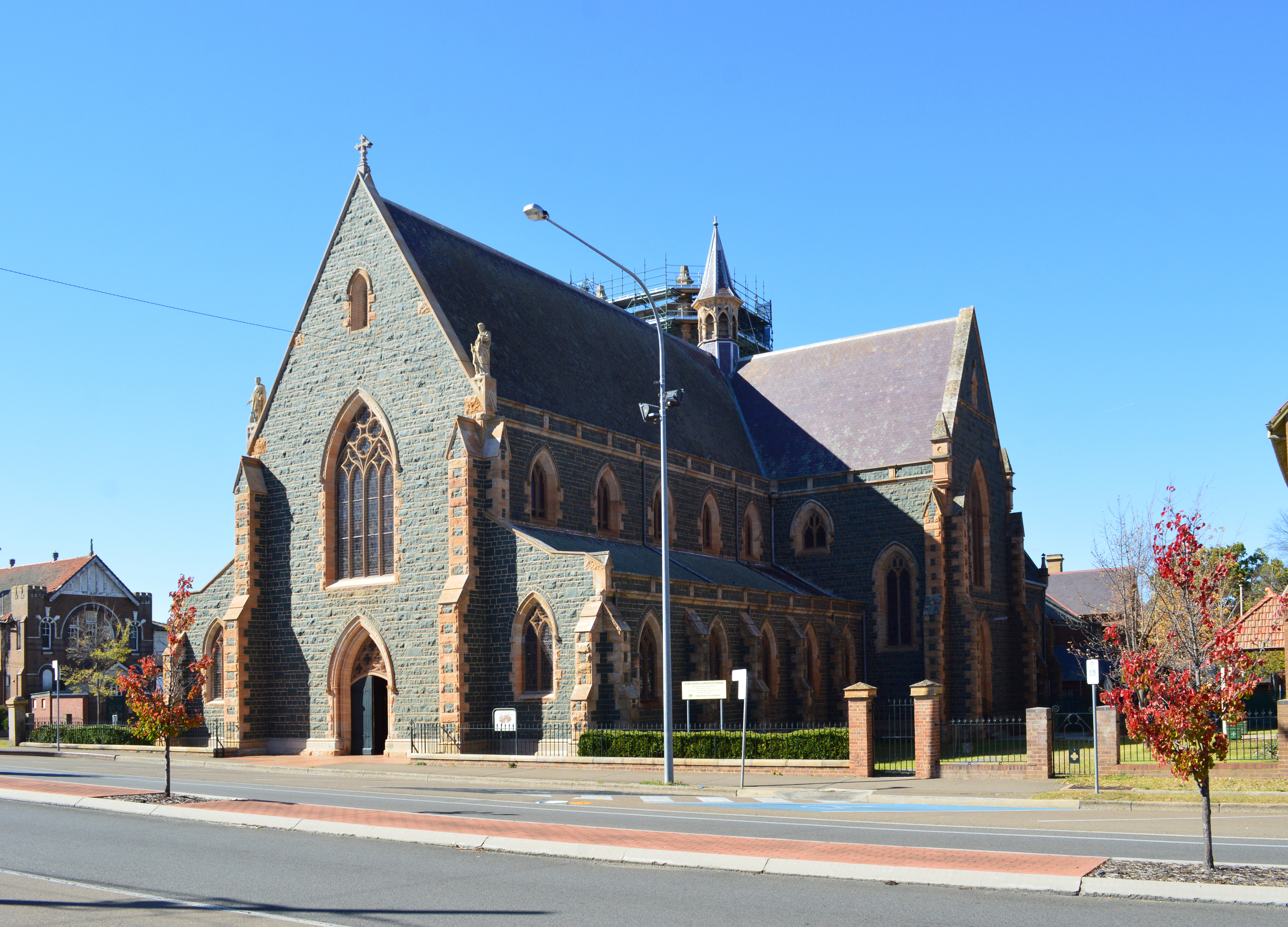 Saints Peter and Paul's Old Cathedral at Goulburn, New South Wales